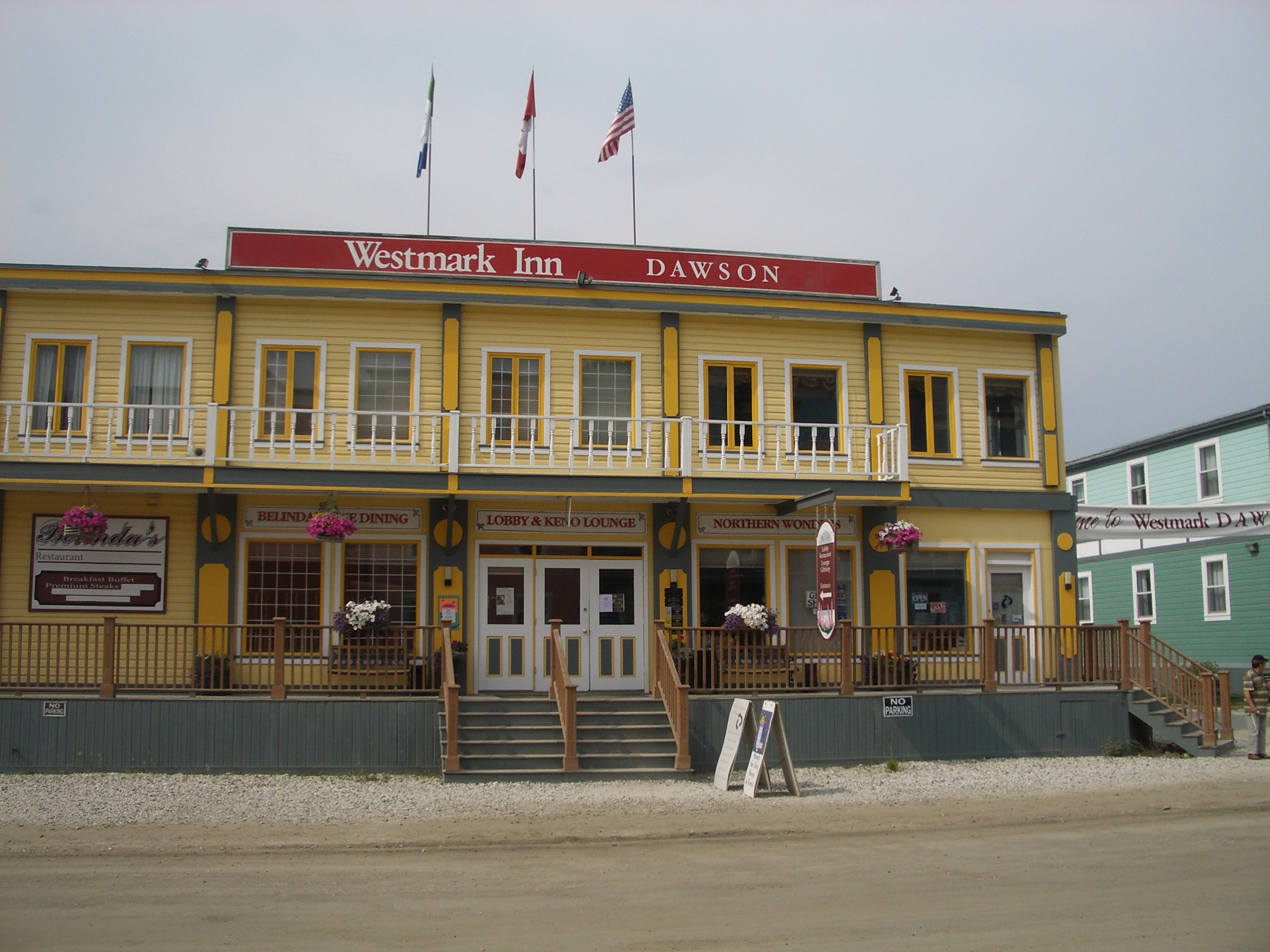 Westmark hotel at Dawson city (Yukon - Canada)